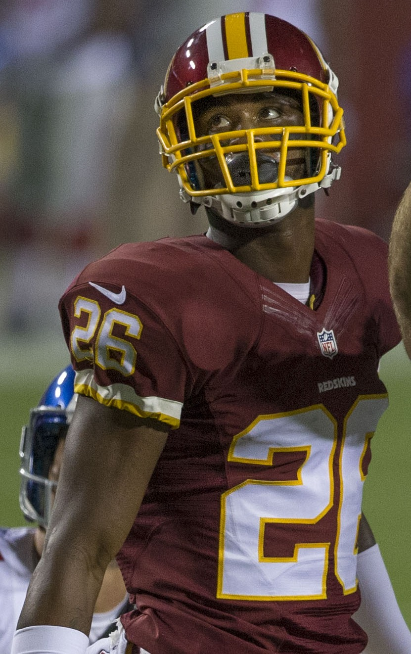 Washington Redskins cornerback, Bashaud Breeland, in a game against the New York Giants on 9/25/2014.